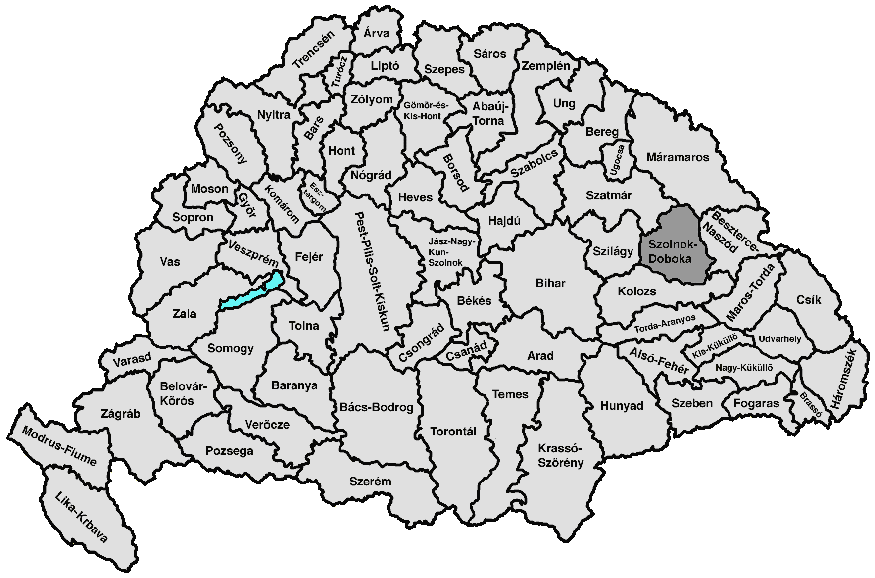 own edit of Image:Zala.png